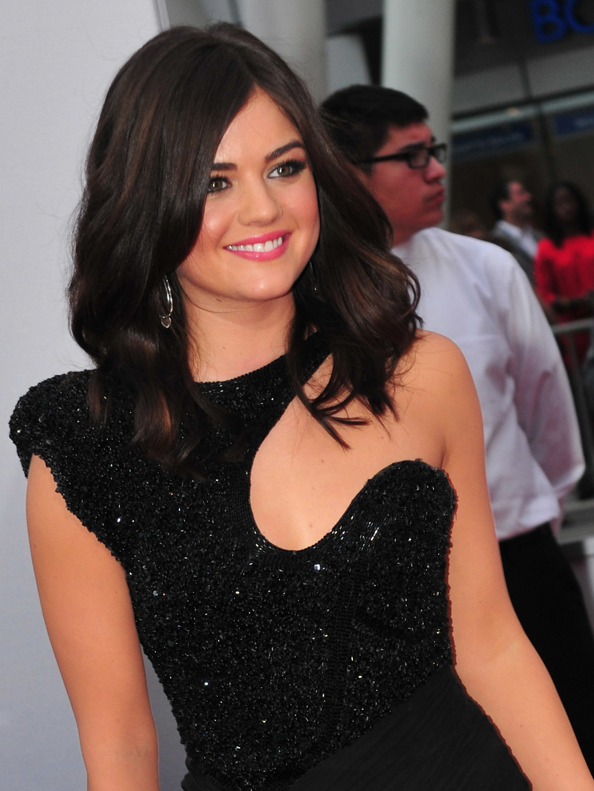 Lucy Hale on the red carpet at the 38th People's Choice Awards on January 11, 2012, at the Nokia Theatre in Los Angeles, California